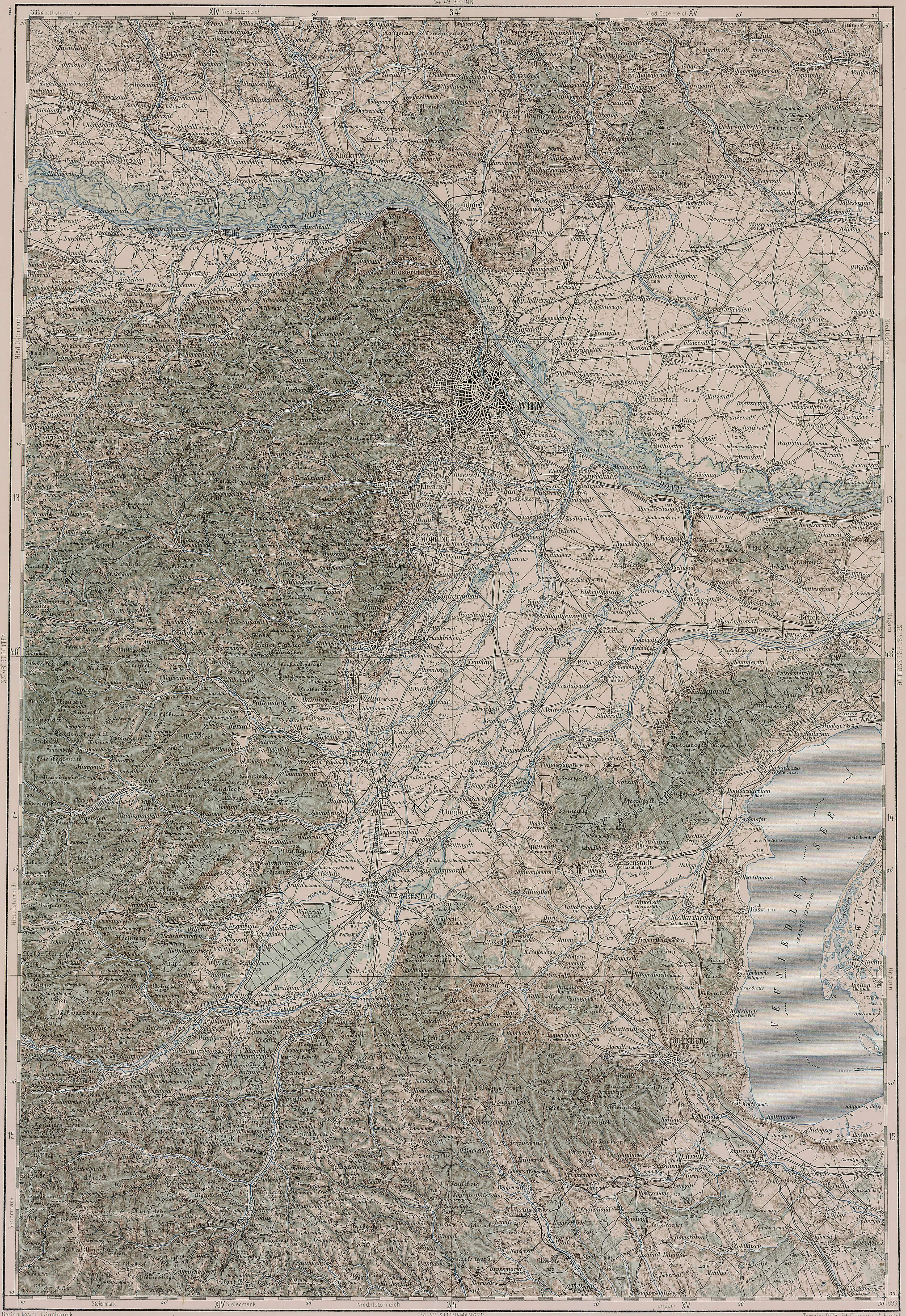 3rd Military Mapping Survey of Austria-Hungary - Wien